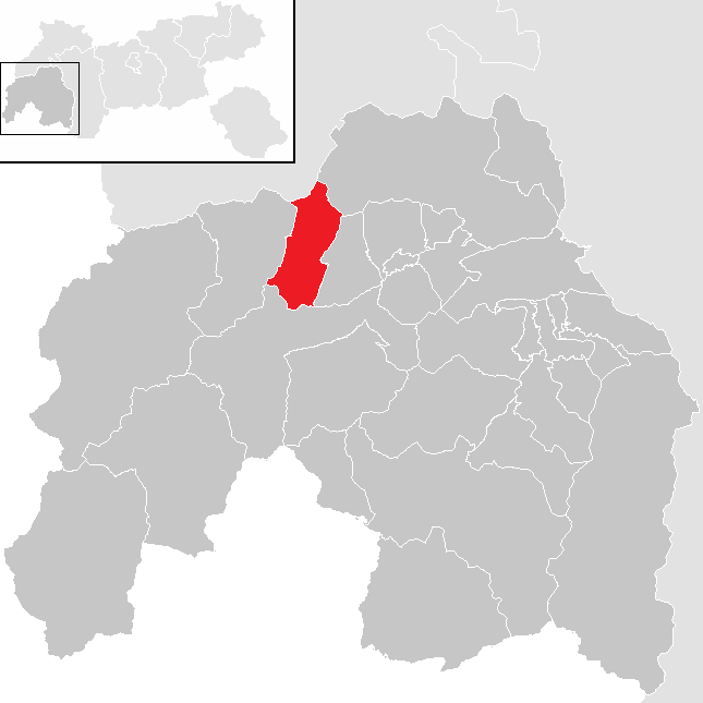 District Landeck